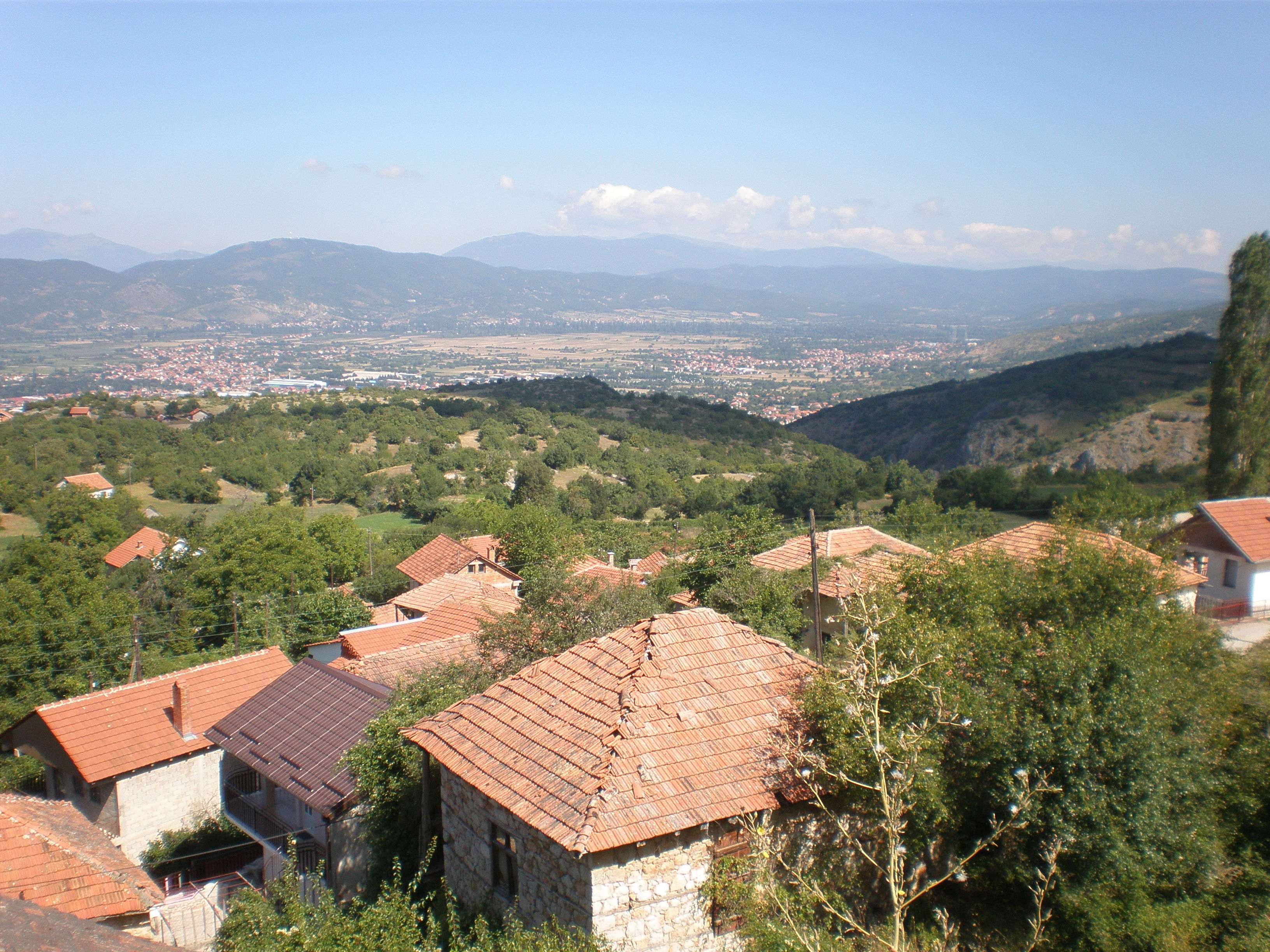 Ramne, Macedonia